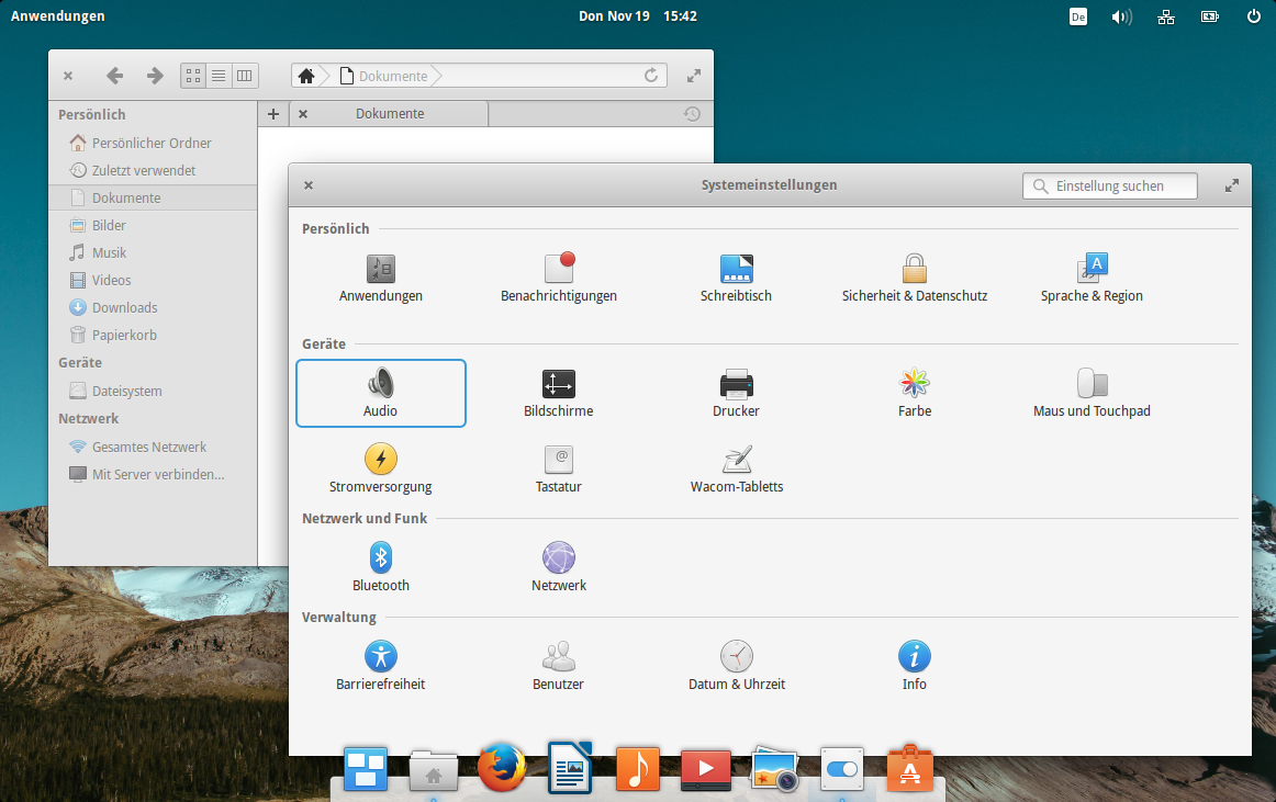 Screenshot of Elementary OS 0.3.1 in Virtual Box 5.0.png